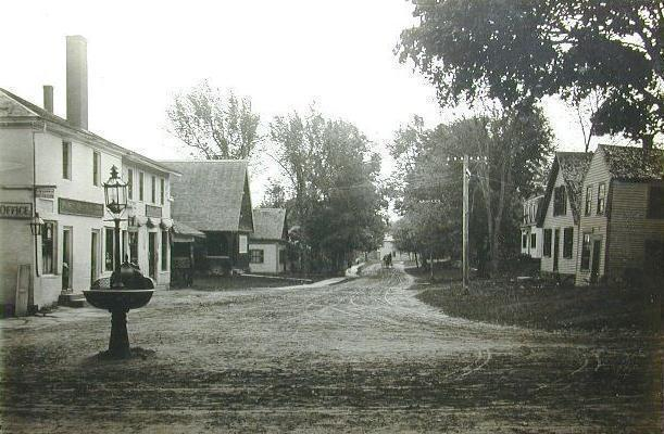 Main Street, New Ipswich, NH; from a 1907 postcard.